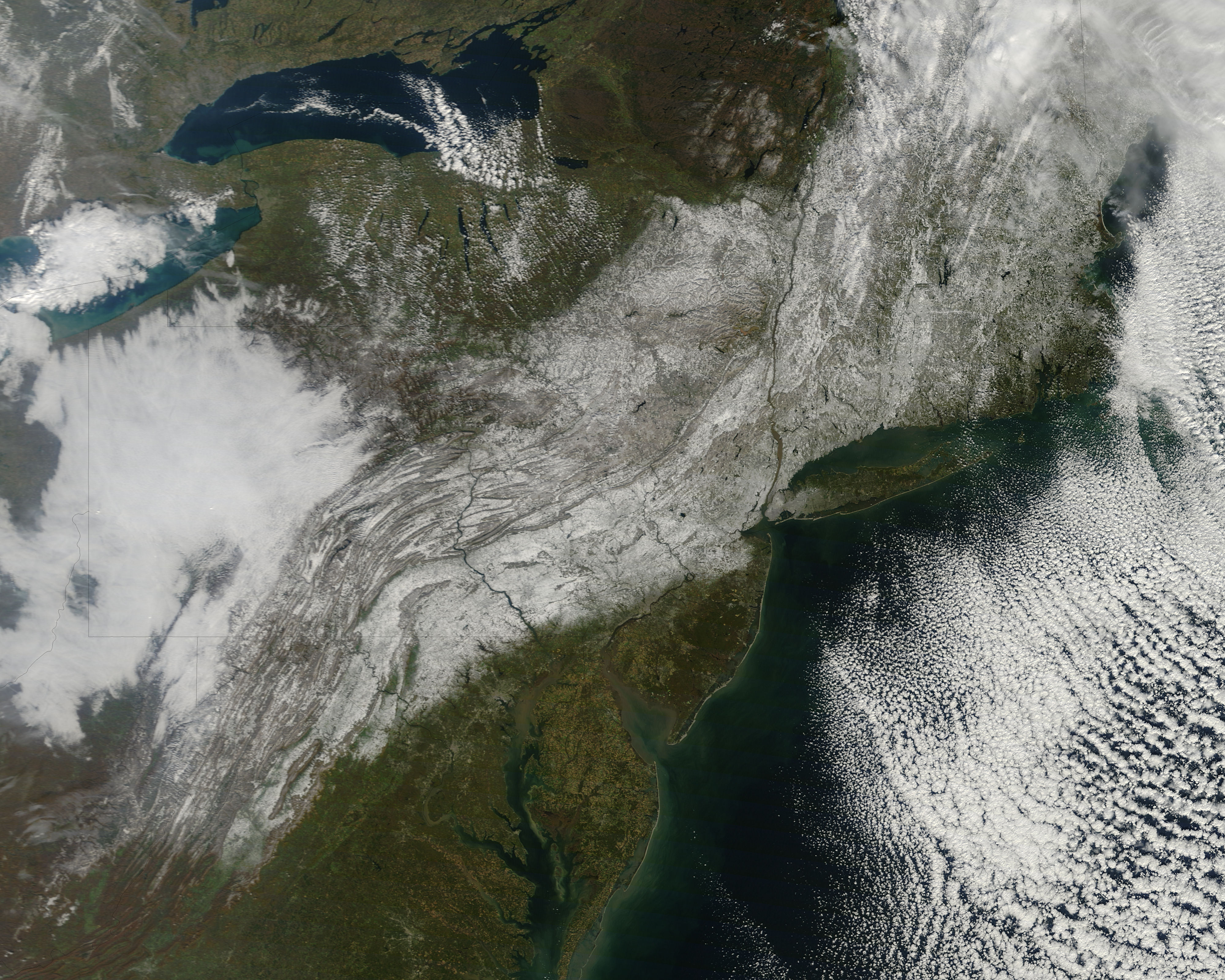 The 2011 Halloween nor'easter from NASA's Terra satellite